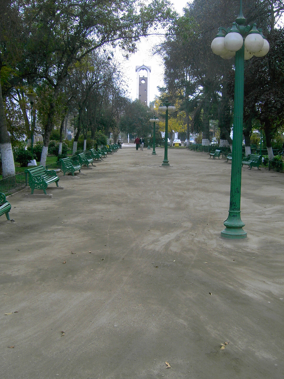 Plaza de Armas in Curacaví, Chile.